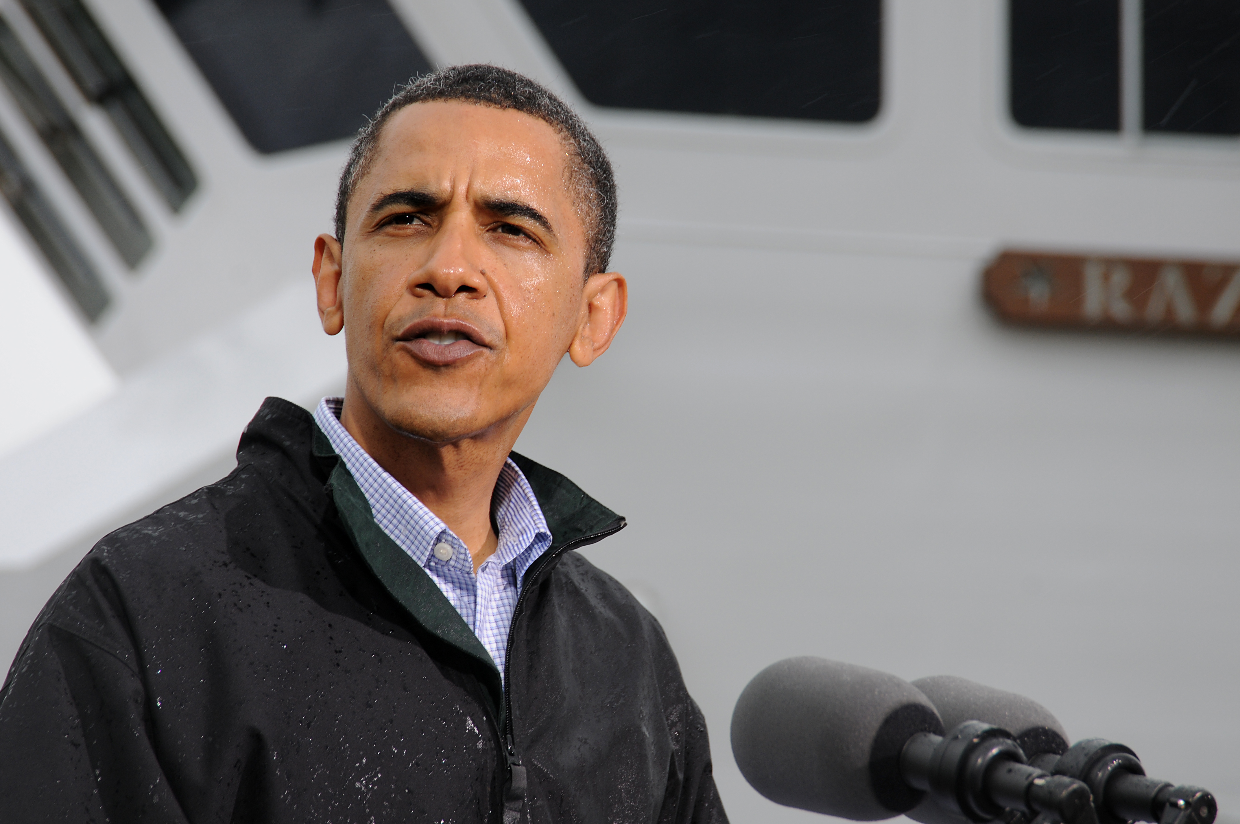 President Barack Obama speaks to reporters at Coast Guard Station Venice, La., May 2, 2010.